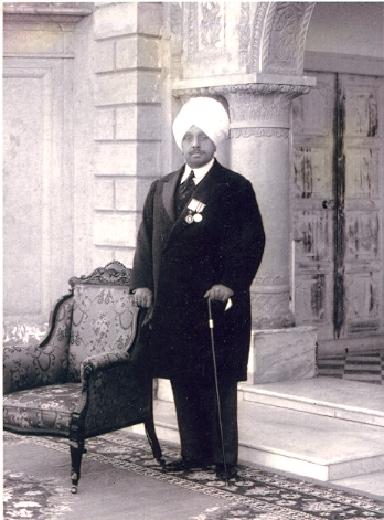 No copyright since photograph over 100 years old